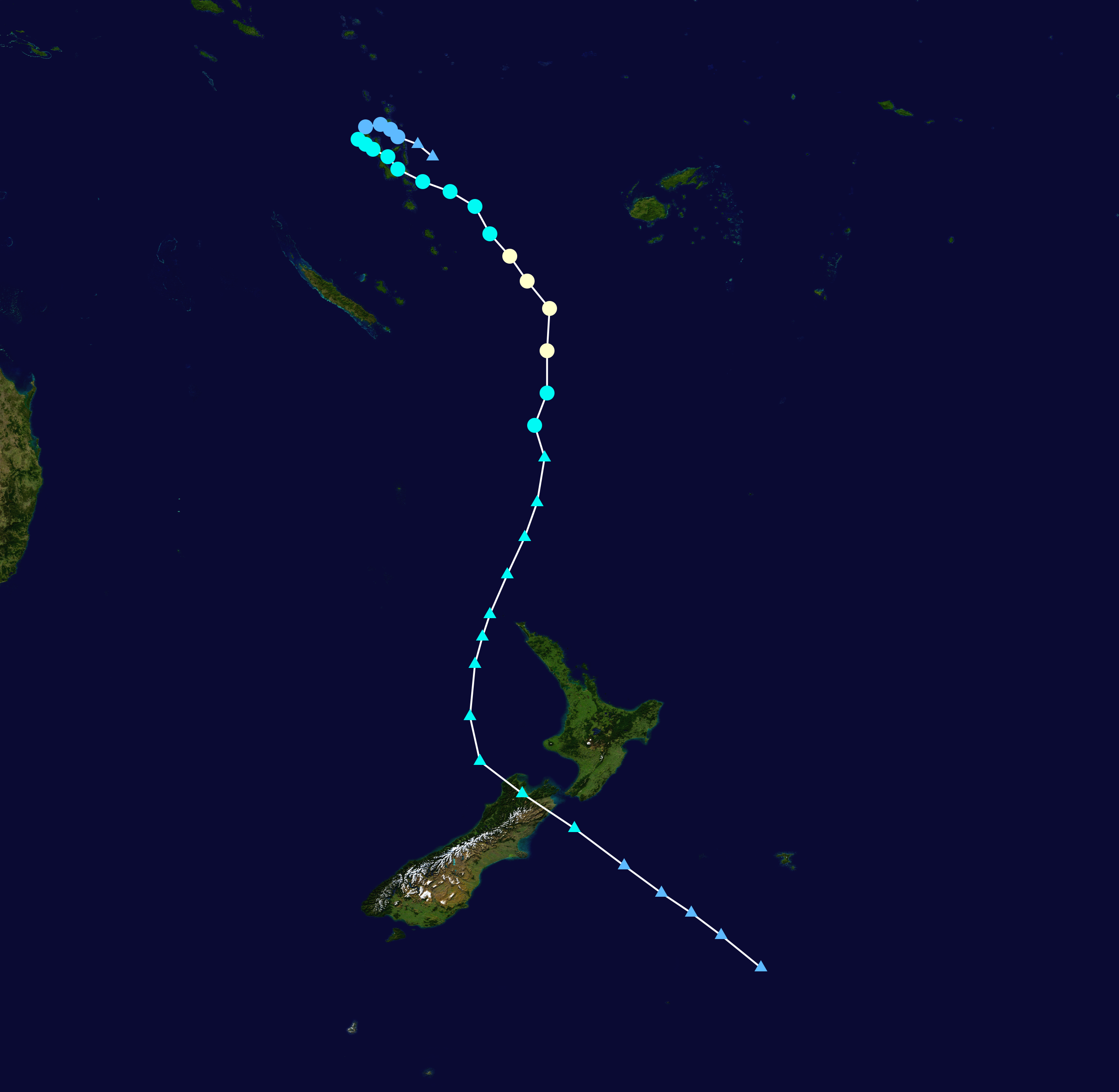 Track map of Severe Tropical Cyclone Lusi of the 2013-14 South Pacific cyclone season. The points show the location of the storm at 6-hour intervals. The colour represents the storm's maximum sustained wind speeds as classified in the Saffir–Simpson scale (see below), and the shape of the data points represent the nature of the storm, according to the legend below. Saffir–Simpson scale Tropical depression≤38 mph≤62 km/h Category 3111–129 mph178–208 km/h Tropical storm39–73 mph63–118 km/h Category 4130–156 mph209–251 km/h Category 174–95 mph119–153 km/h Category 5≥157 mph≥252 km/h Category 296–110 mph154–177 km/h Unknown Storm type Tropical cyclone Subtropical cyclone Extratropical cyclone / Remnant low / Tropical disturbance / Monsoon depression